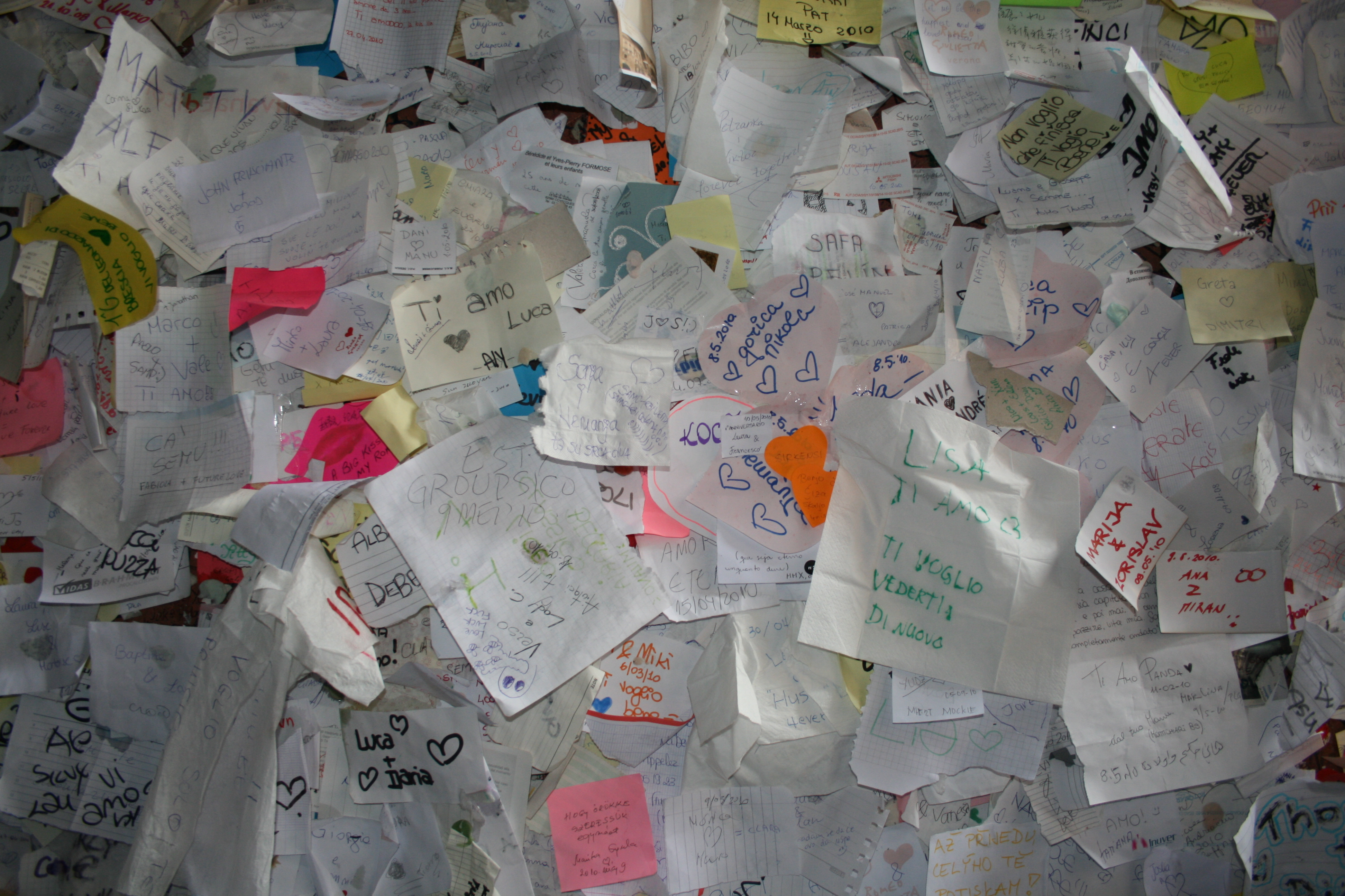 Writing of lovers at Casa di Giulietta